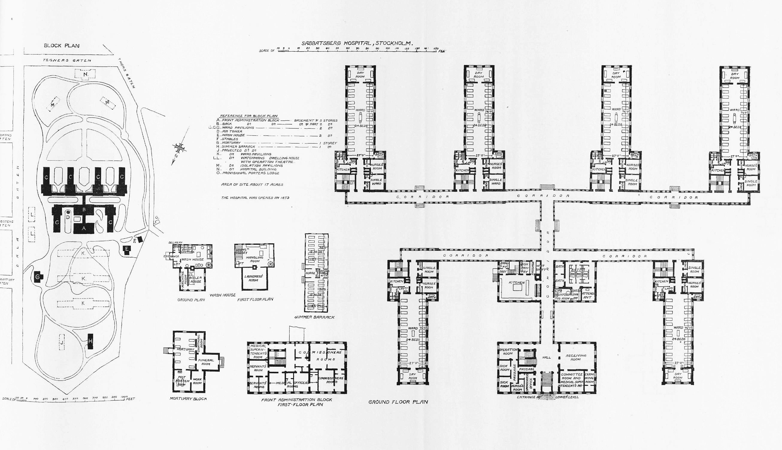 An individual page from the scanned book: Hospitals and Asylums of the World : Portfolio of Plans (1893)